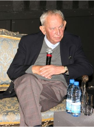 Gustaw Holoubek (1923-2008), Polish actor and theater director